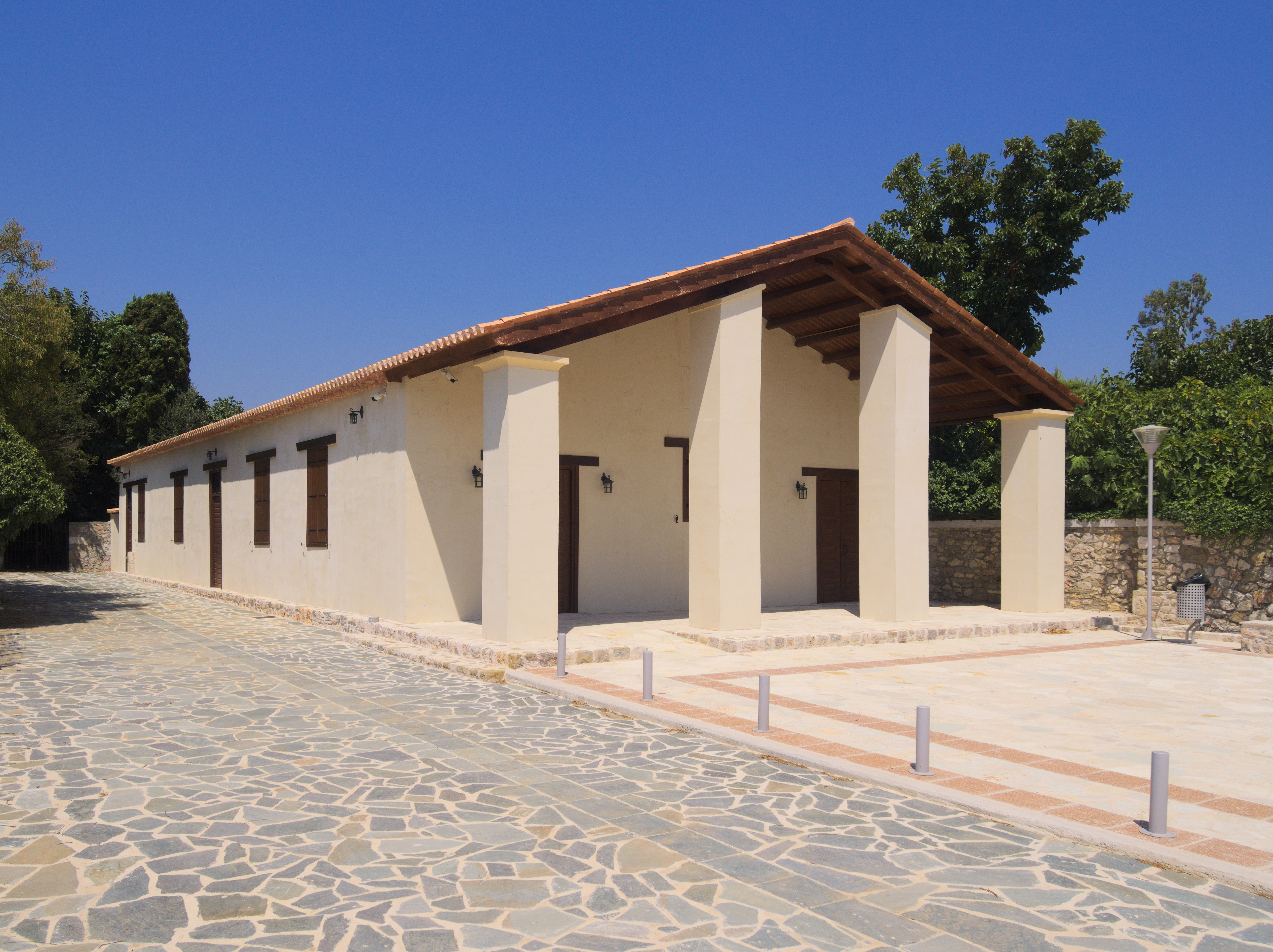 The Kapodistrian school at Methoni, built in February 1830s. Established by the Governor of Greece, Ioannis Kapodistrias, its plans were drawn by Lieutenant Colonel Joseph-Victor Audoy, commandant of the military engineering of the Morea expedition.